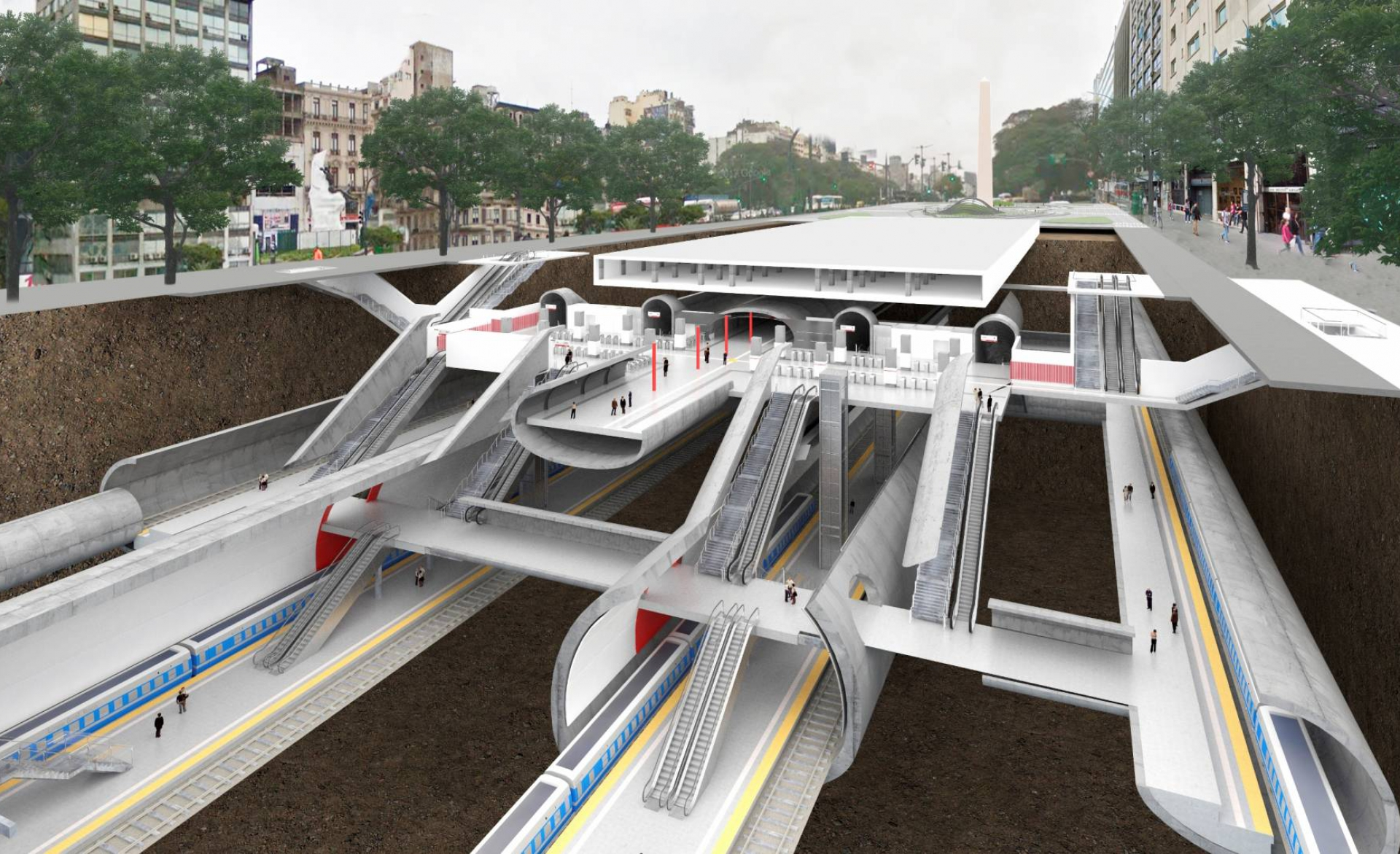 Artist's impression of the Obelisco station from the Red de Expresos Regionales